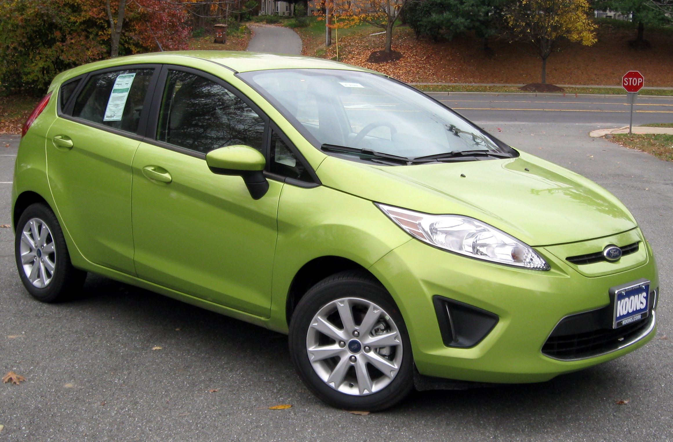 2012 Ford Fiesta photographed in Silver Spring, Maryland, USA.